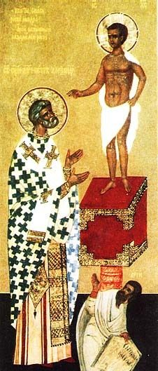 Vision of Peter of Alexandria